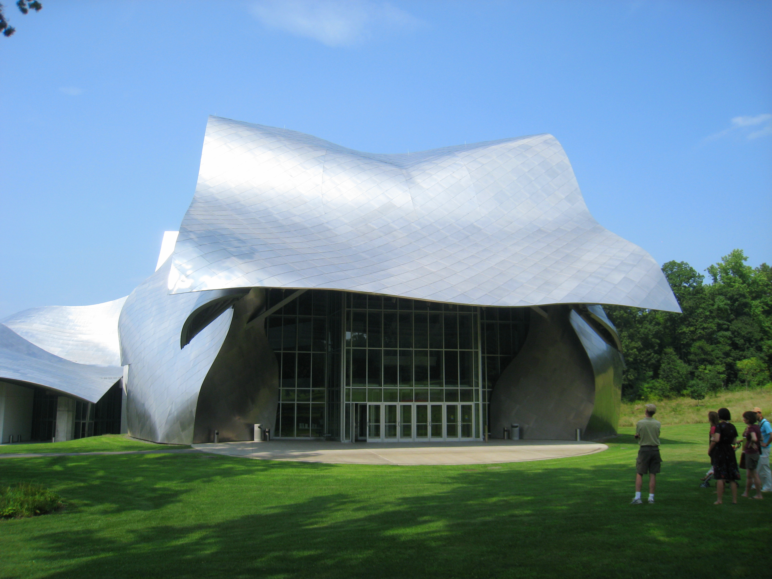 Richard B. Fisher Center for the Performing Arts, Bard College, Annandale-on-Hudson, New York, USA. Architect Frank Gehry.